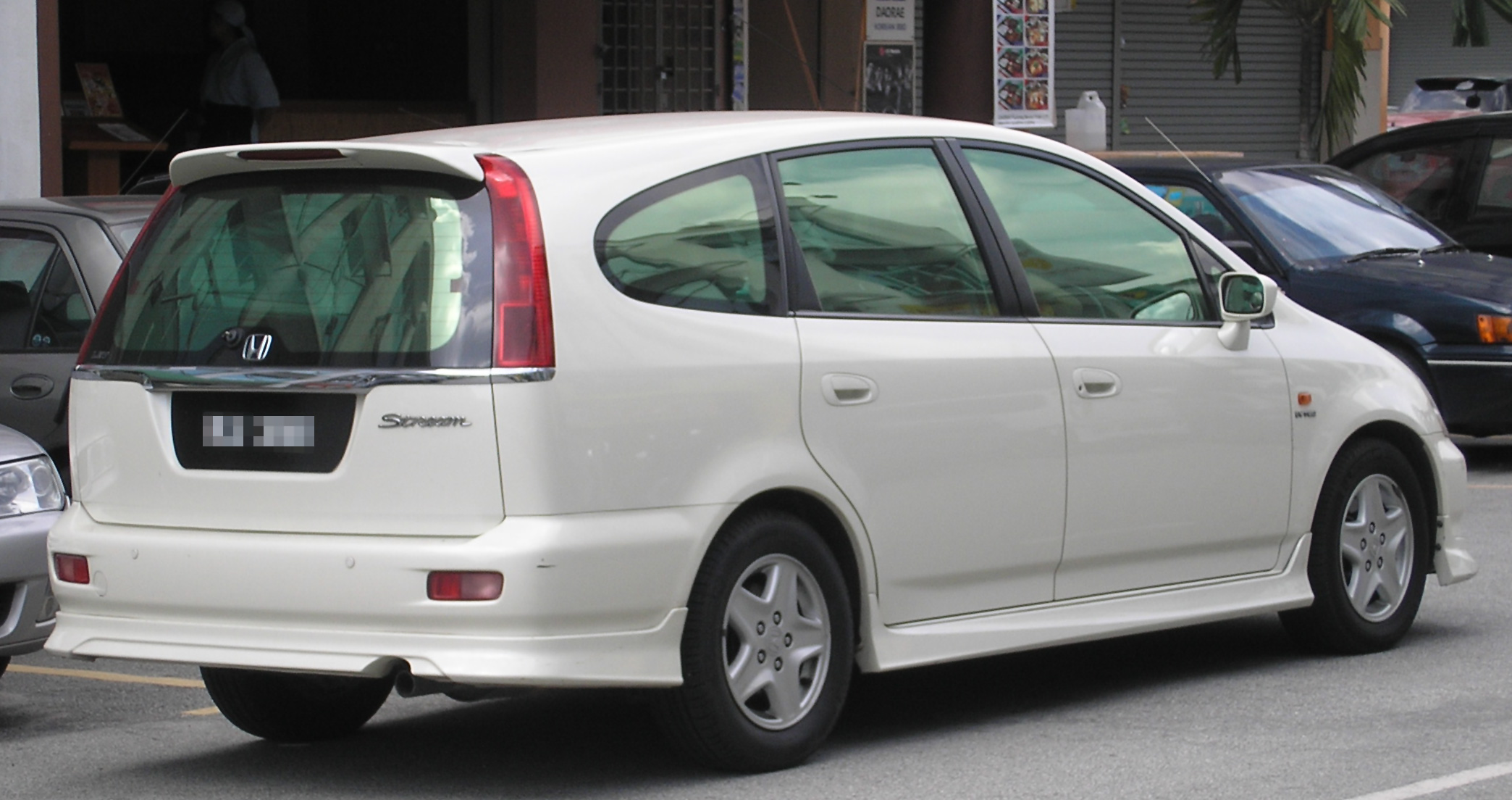 Rear quarter view of a first generation Honda Stream, in Serdang, Selangor, Malaysia.